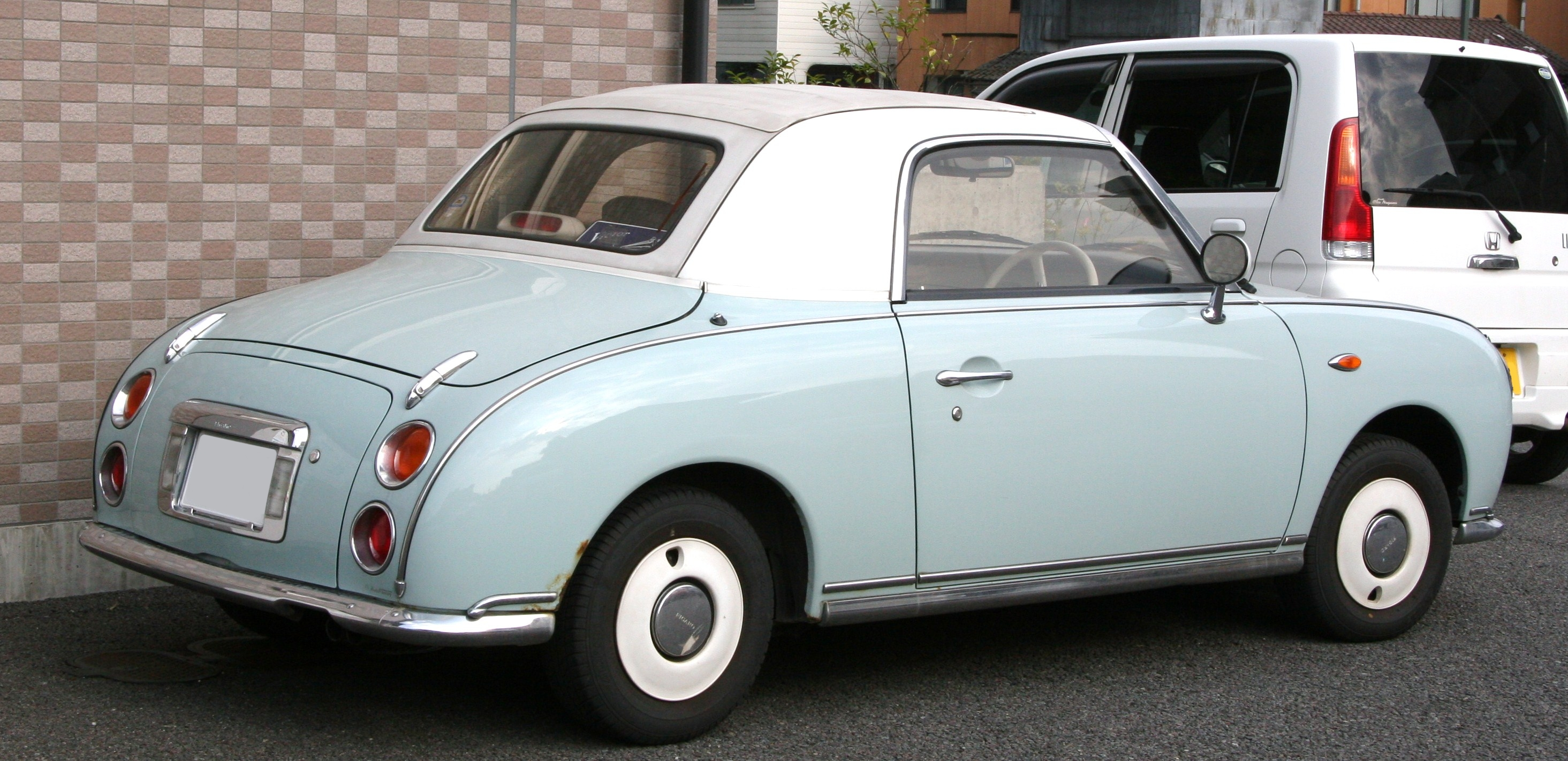 Nissan Figaro